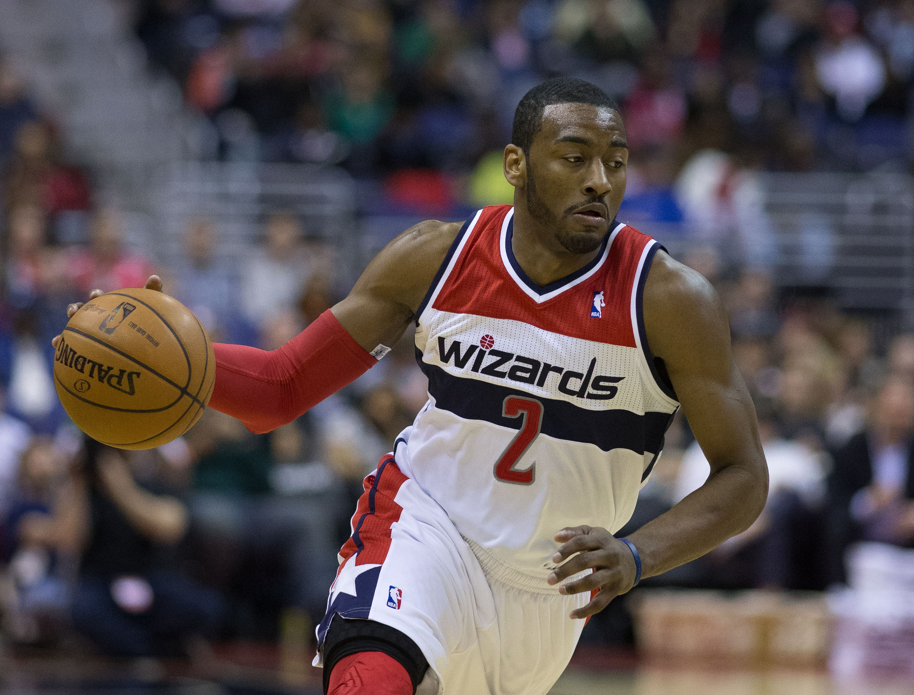 Philadelphia 76ers at Washington Wizards March 3, 2013